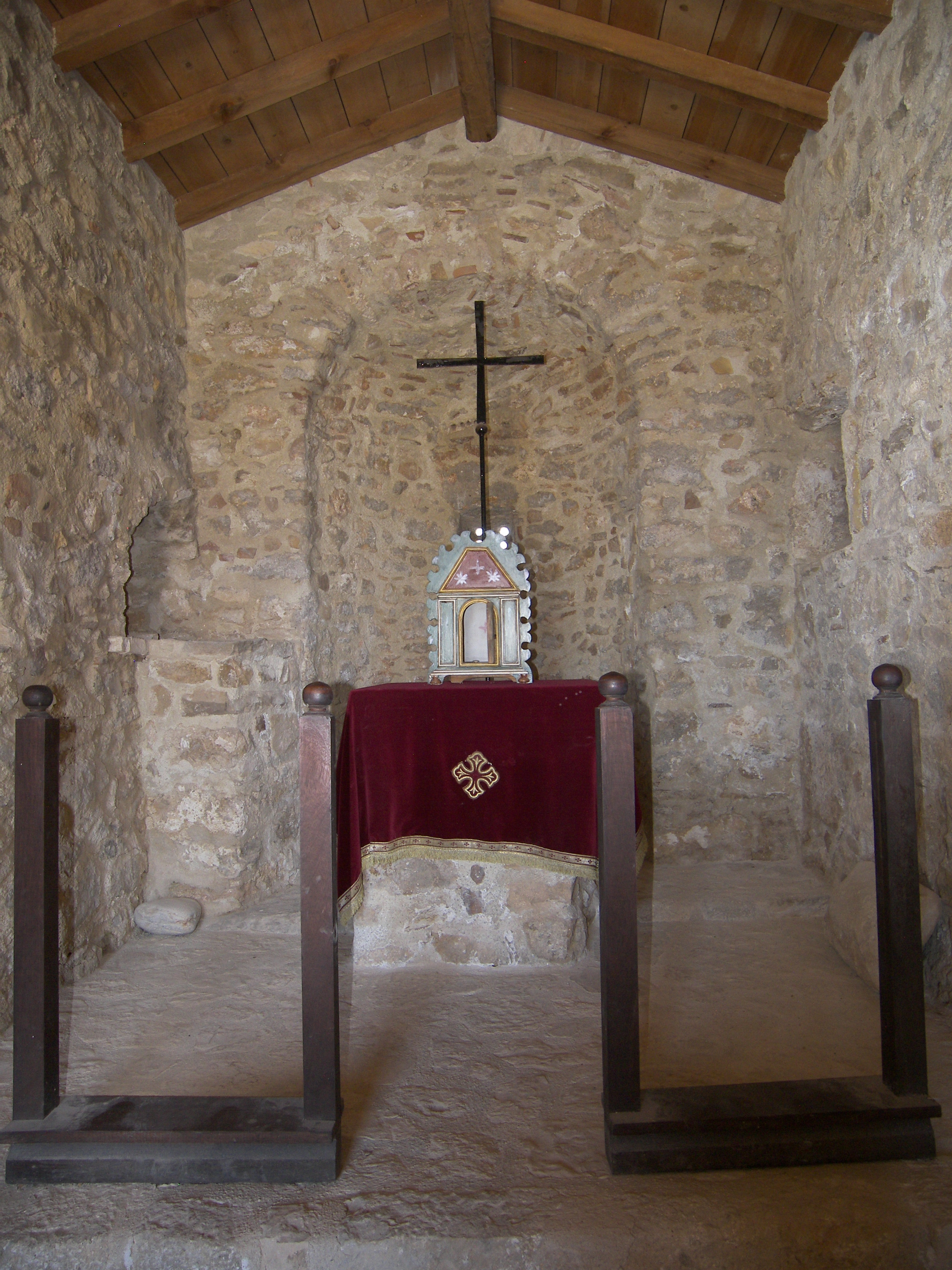 Please see filename.